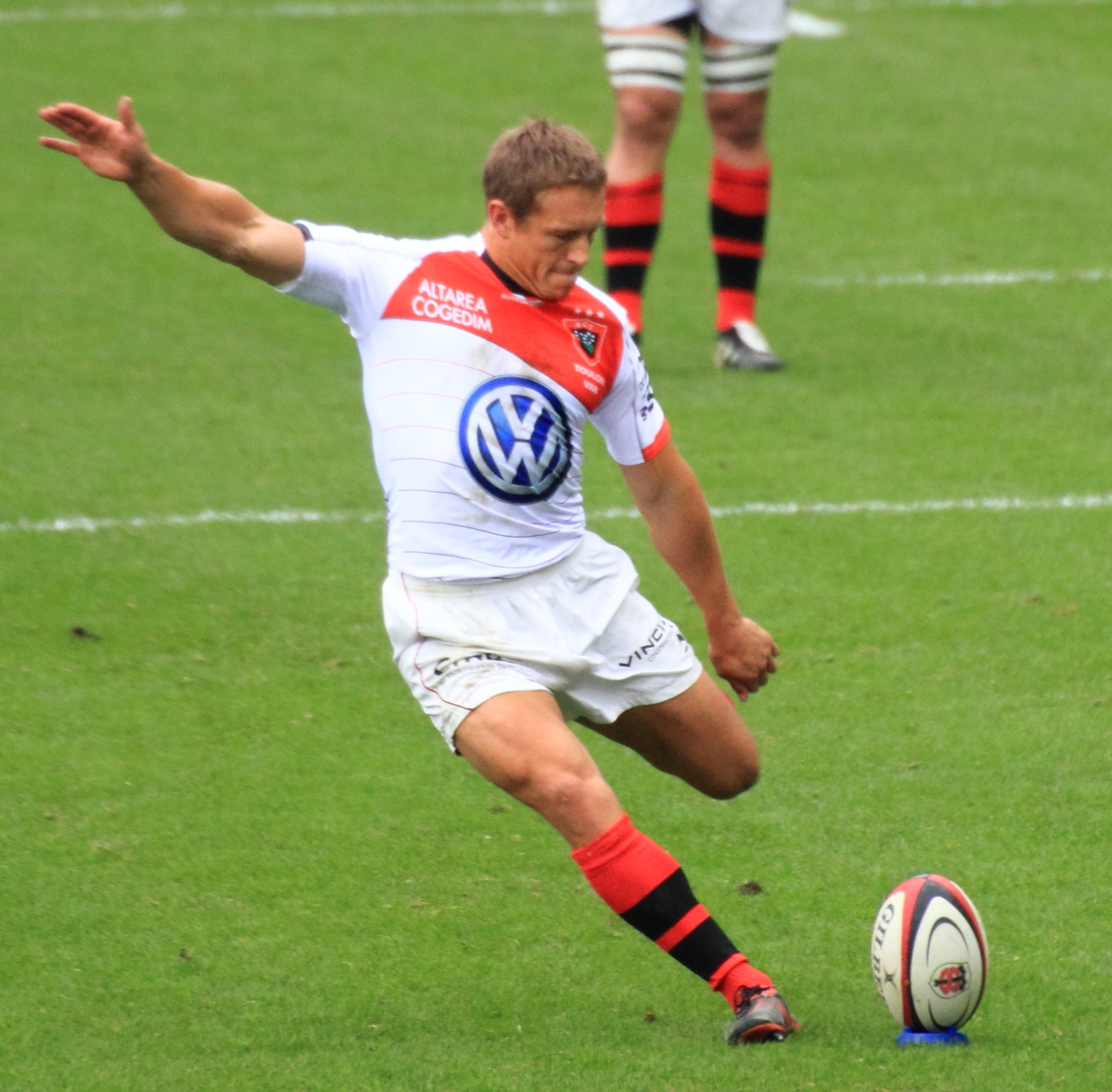 Top 14 — 3 December 2011, Stadium. Match between: Stade toulousain — RC Toulon